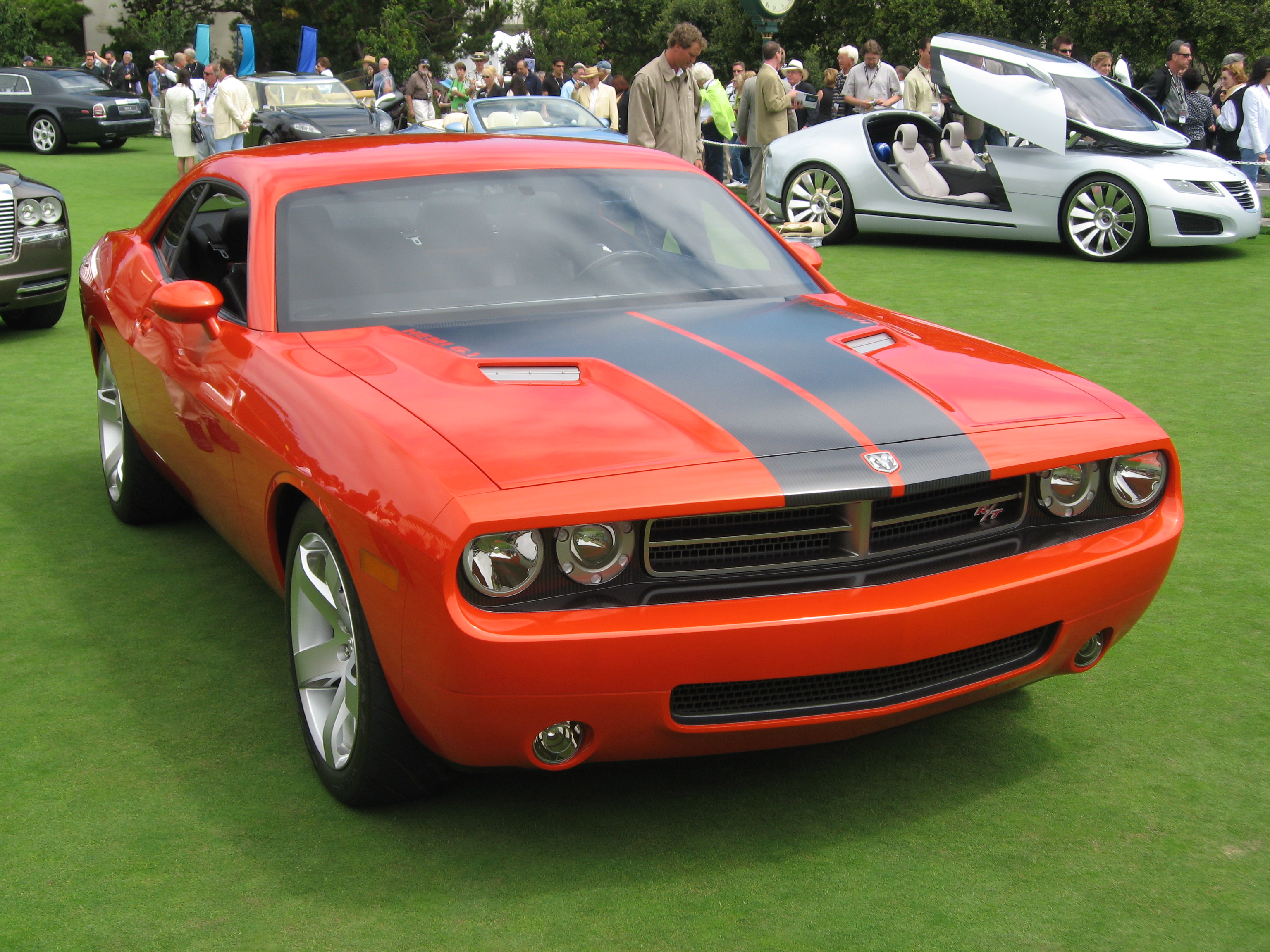 Dodge Challenger concept at the 2006 Pebble Beach Concours d'Elegance